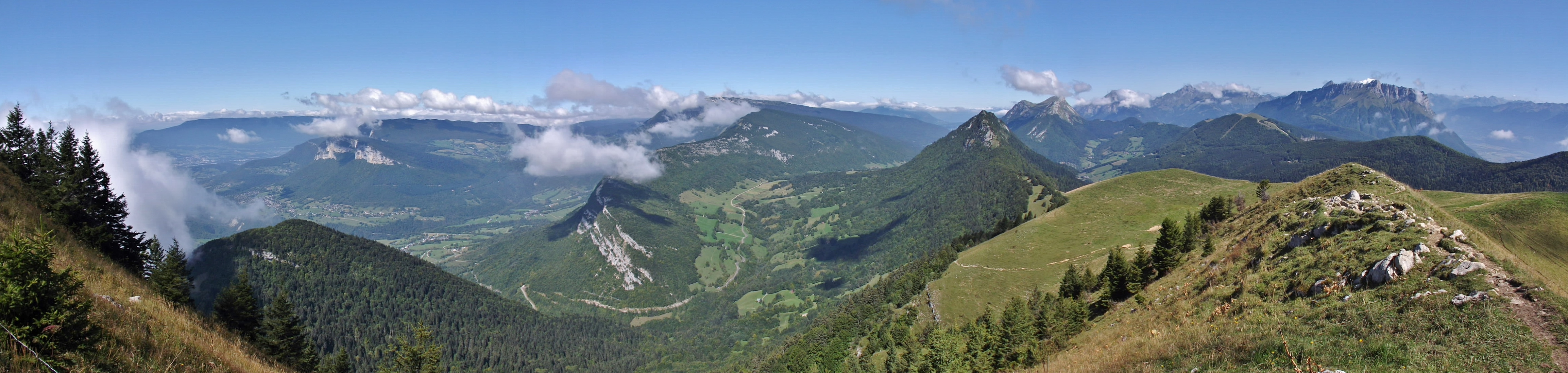 Panoramic landscape, from the Pointe de la Galoppaz mount (1.681 meters high), on the southern Bauges mountains, at the East of Chambéry in Savoie, France.